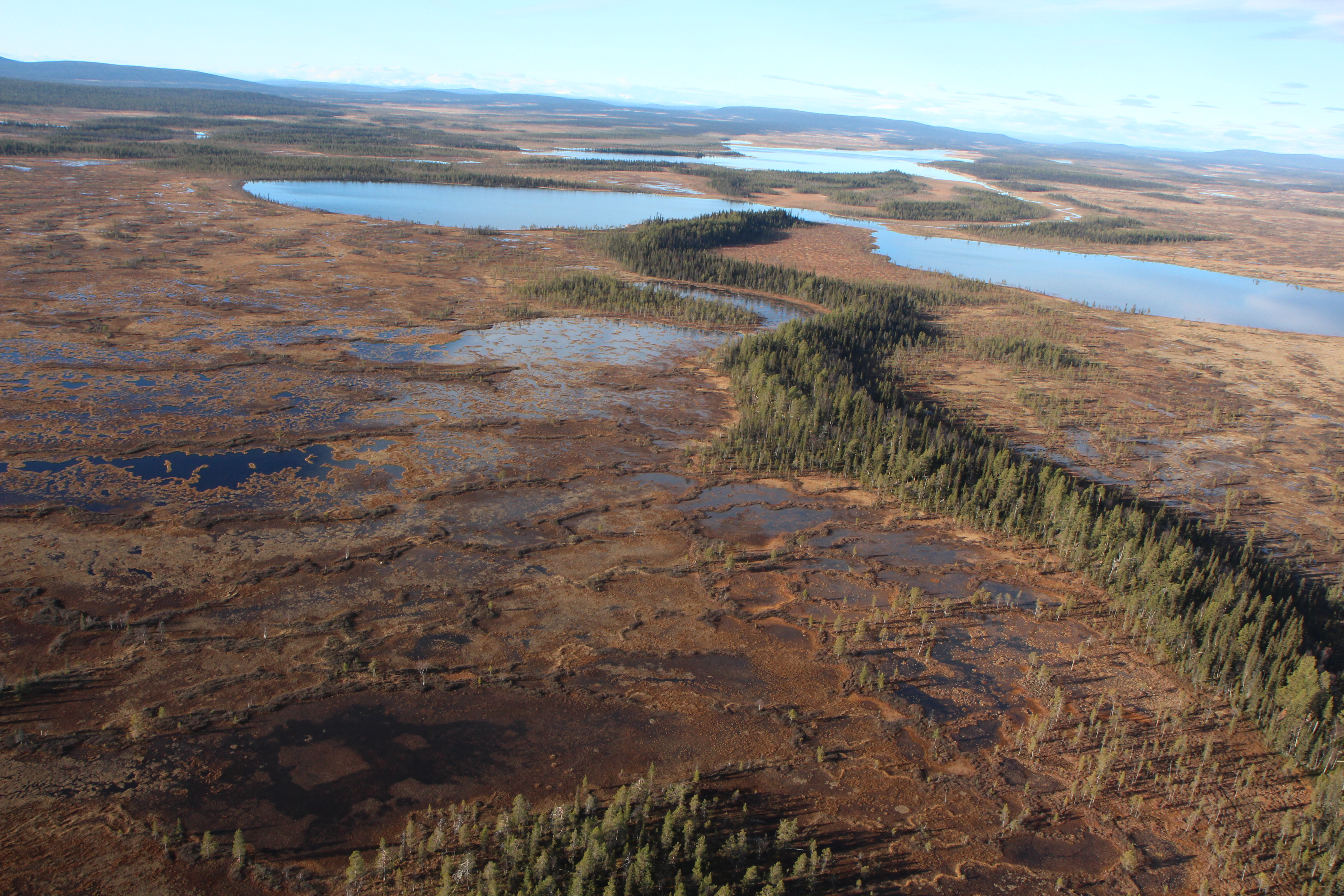 String bog (Aapa moore) in Muddus national park, Sweden